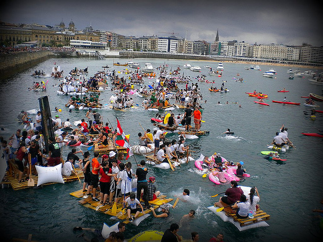 Abordatzera! celebration in Donostia.